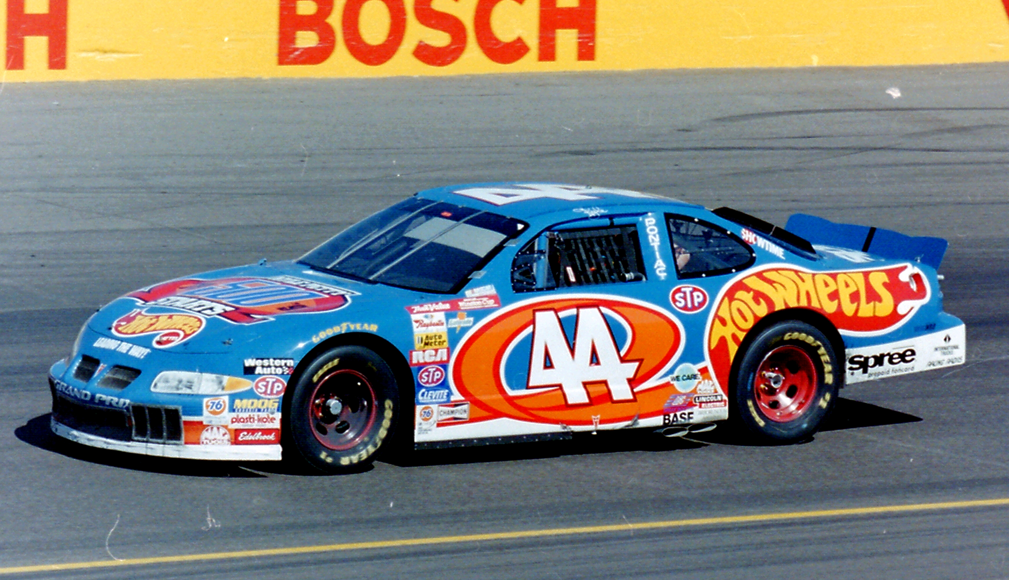 Driving the No. 44 Hot Wheels/PE2 Pontiac, Kyle Petty makes his 500th NASCAR Winston Cup Series start in the Dura-Lube 500 at Phoenix International Raceway, November 2, 1997.